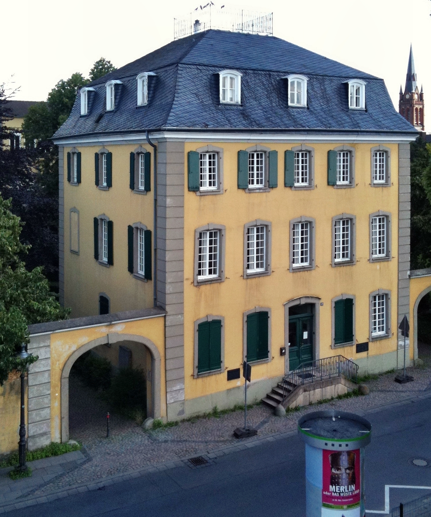 Germany, Bonn: house called "Mehlem'sches Haus": current use as a music school of the City of Bonn.